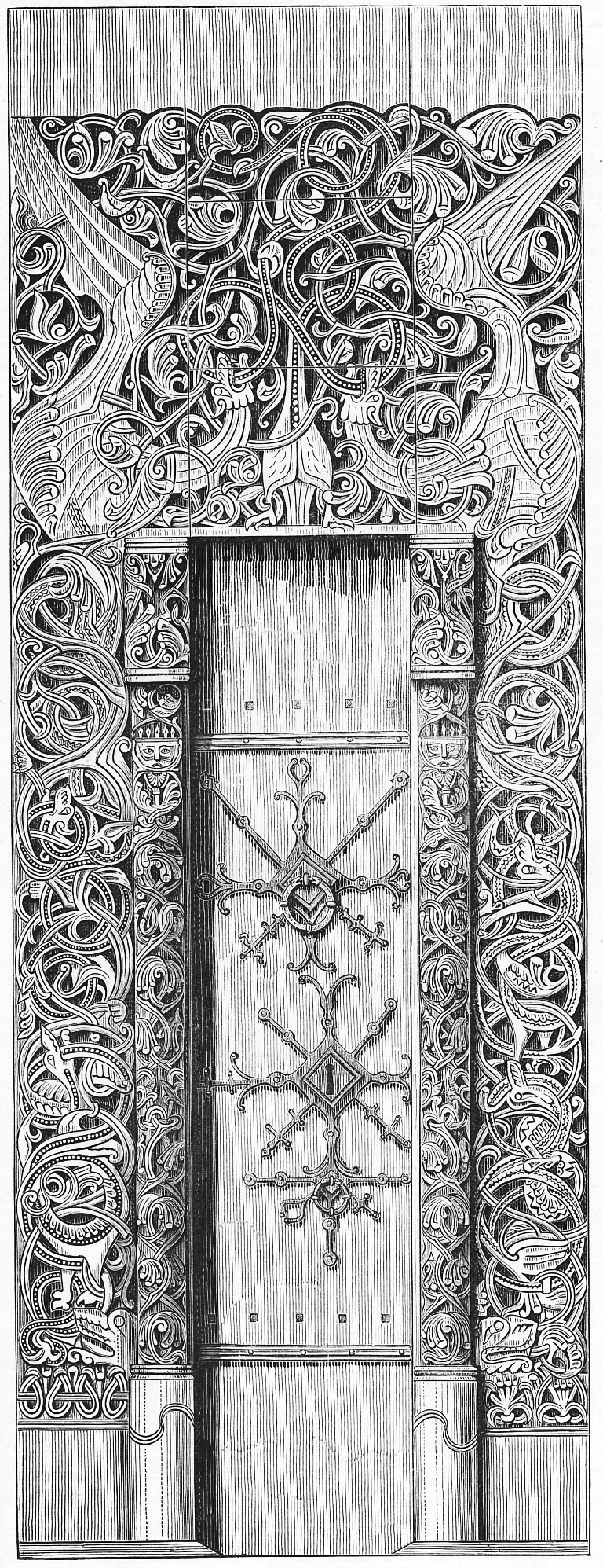 Gol south portal